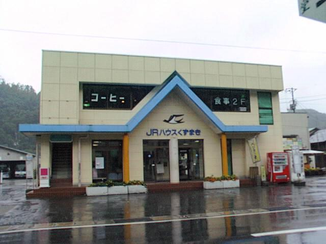 JR Bus Tohoku Kuzimaki Sta.